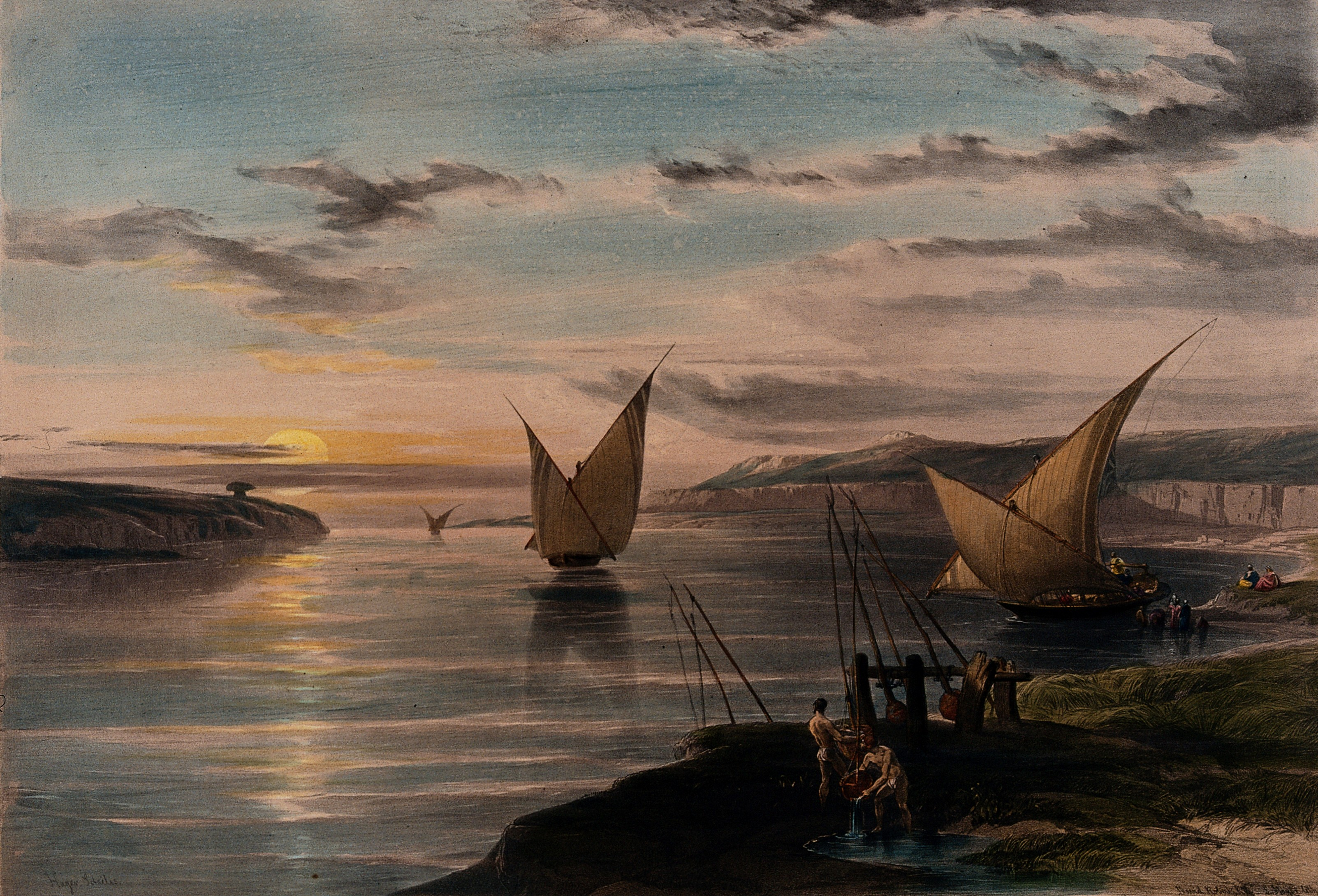 Boats on the Nile at sunset, Egypt. Coloured lithograph by Louis Haghe after David Roberts, 1847. Iconographic Collections Keywords: David Roberts; Louis Haghe